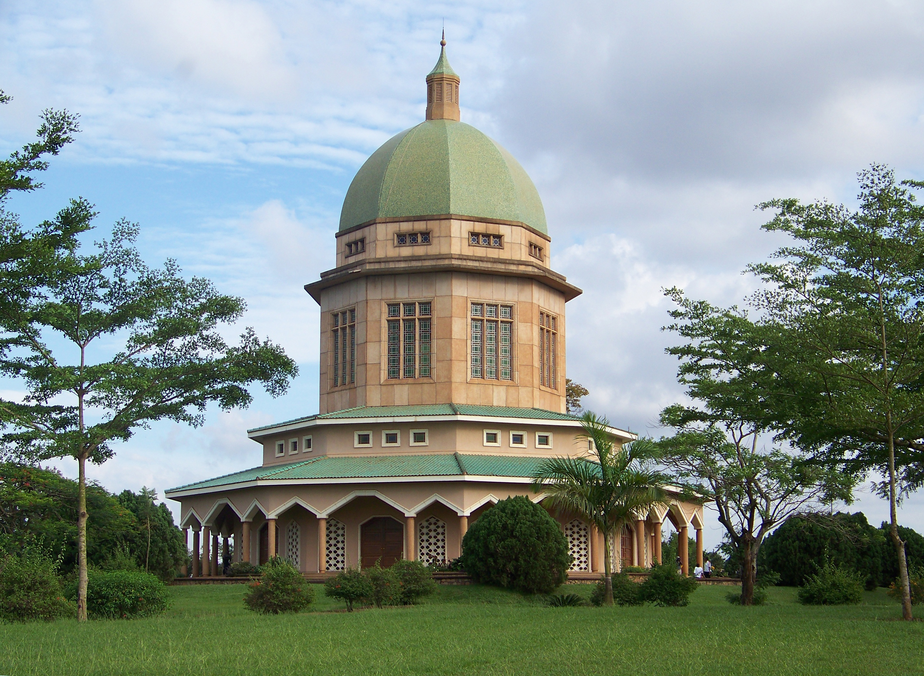 This Baha'i House of Worship is found on Kikaaya Hill, Kampala, Uganda